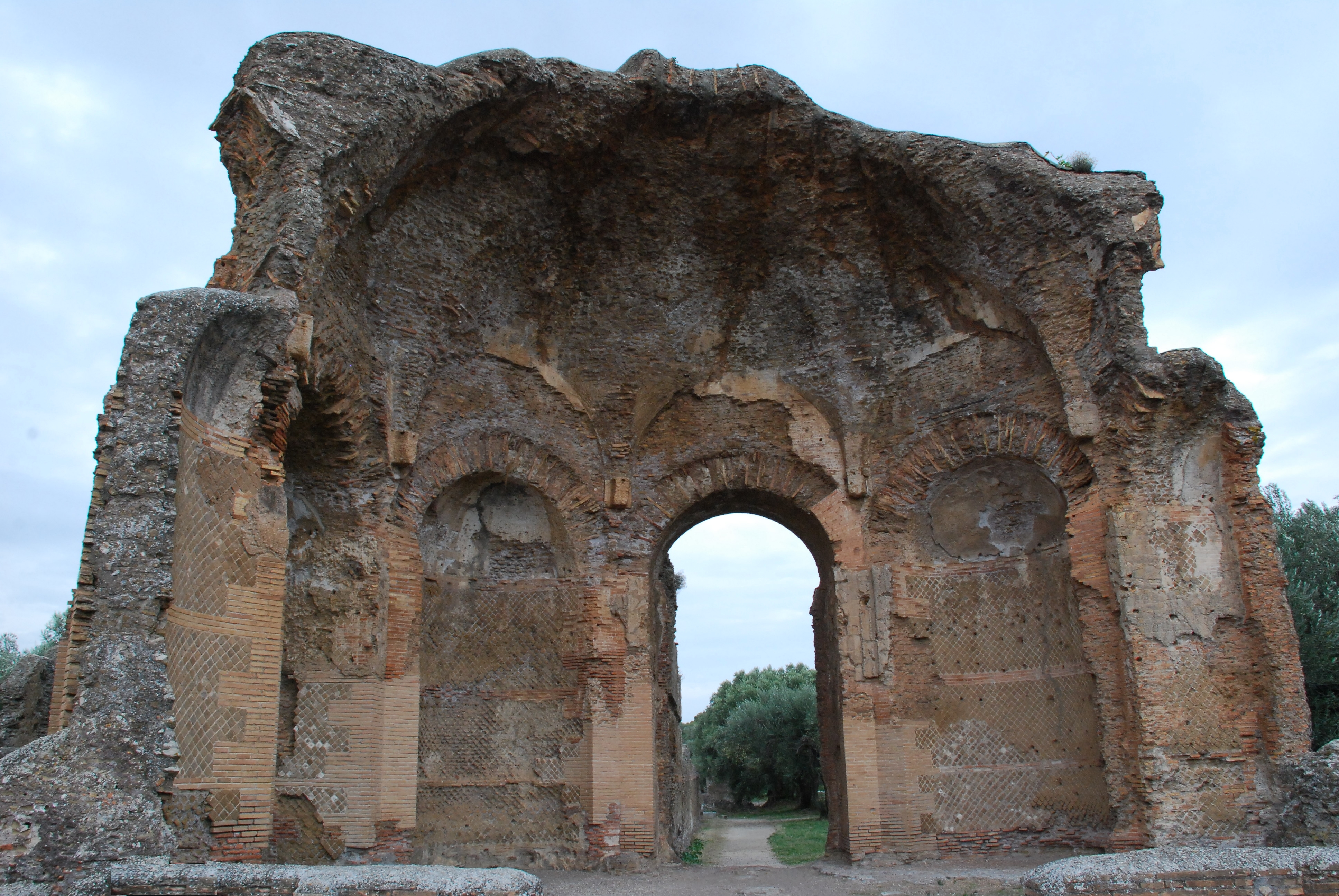 Villa Adriana, residence of Emperor Hadrian near Tivoli, the most extensive ancient roman villa, covering an area of at least 80 hectares.